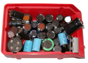 A selection of electrolytic capacitors